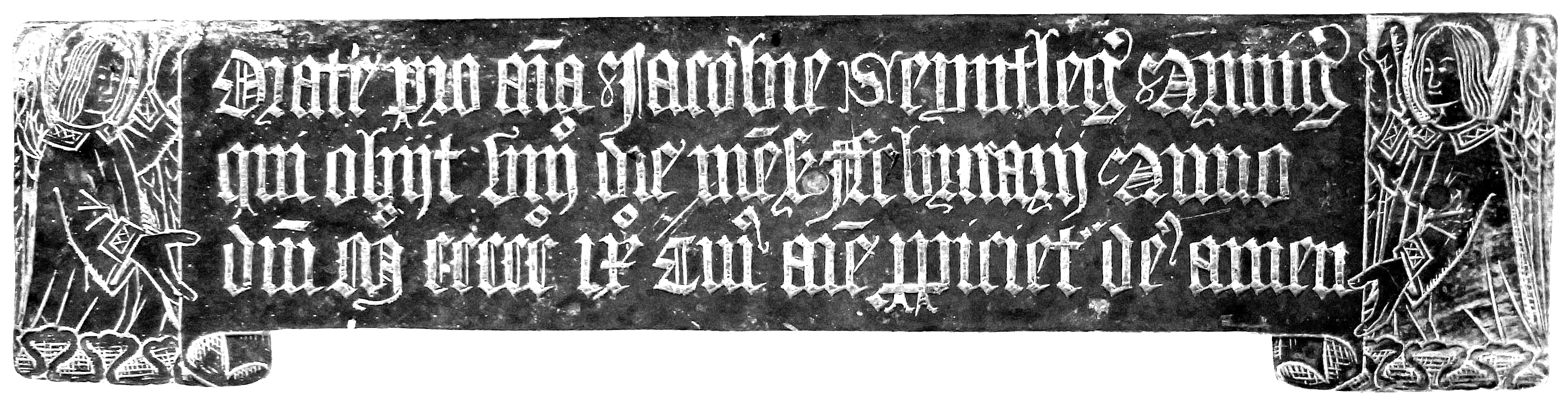 Monumental brass of James St Ledger (d.1509), of Annery, set into floor slab in Annery Chapel of Monkleigh Church, Devon, consisting of an inscribed scroll held at each end by a winged angel. Inscription: Orate pro a(n)i(m)a Jacobie Seyntleg(er)b Armig(eri) qui obiit viii0 die me(n)sis Februarii Anno D(o)m(ino) MCCCCC0 IX0 cui(us) a(n)i(mae) p(rop)iciet(ur) De(us) Amen ("Pray ye for the soul of James St Ledger, Esquire, who died on the 8th day of the month of February in the year of Our Lord 1500th and 9th of whose soul may God look upon with favour Amen") Below is a very worn brass of an escutcheon showing the arms of St Ledger: Azure fretty argent, a chief or